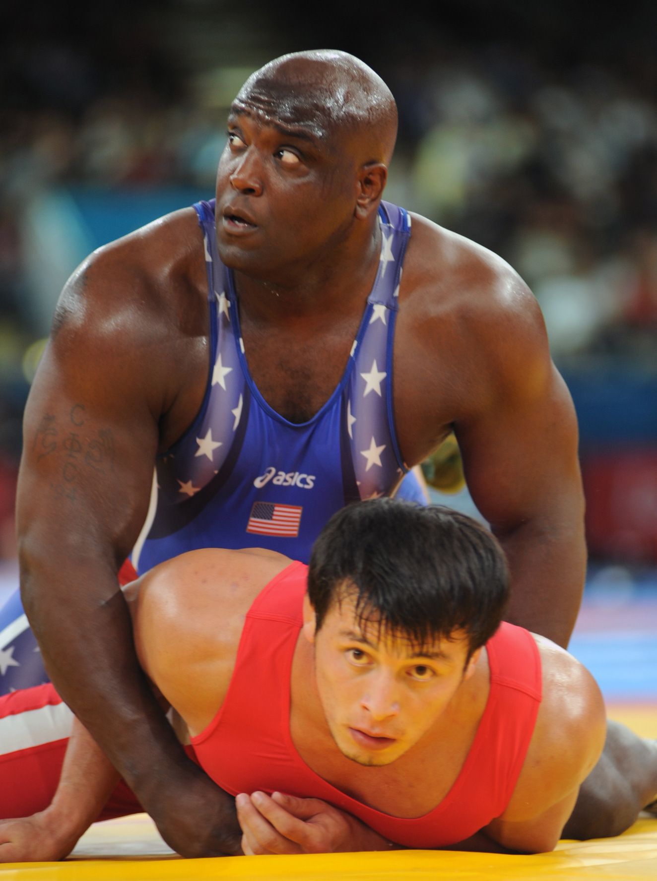 U.S. Army World Class Athlete Progam SFC Dremiel Byers (top) wrestles to a 1-0, 2-0 victory over Muminjon Abdullaev of Uzbekistan in the Olympic men's Greco-Roman 120-kilogram/264.5-pound wrestling tournament Aug. 6 at ExCel North Arena in London. U.S. Army photo by Tim Hipps, IMCOM Public Affairs